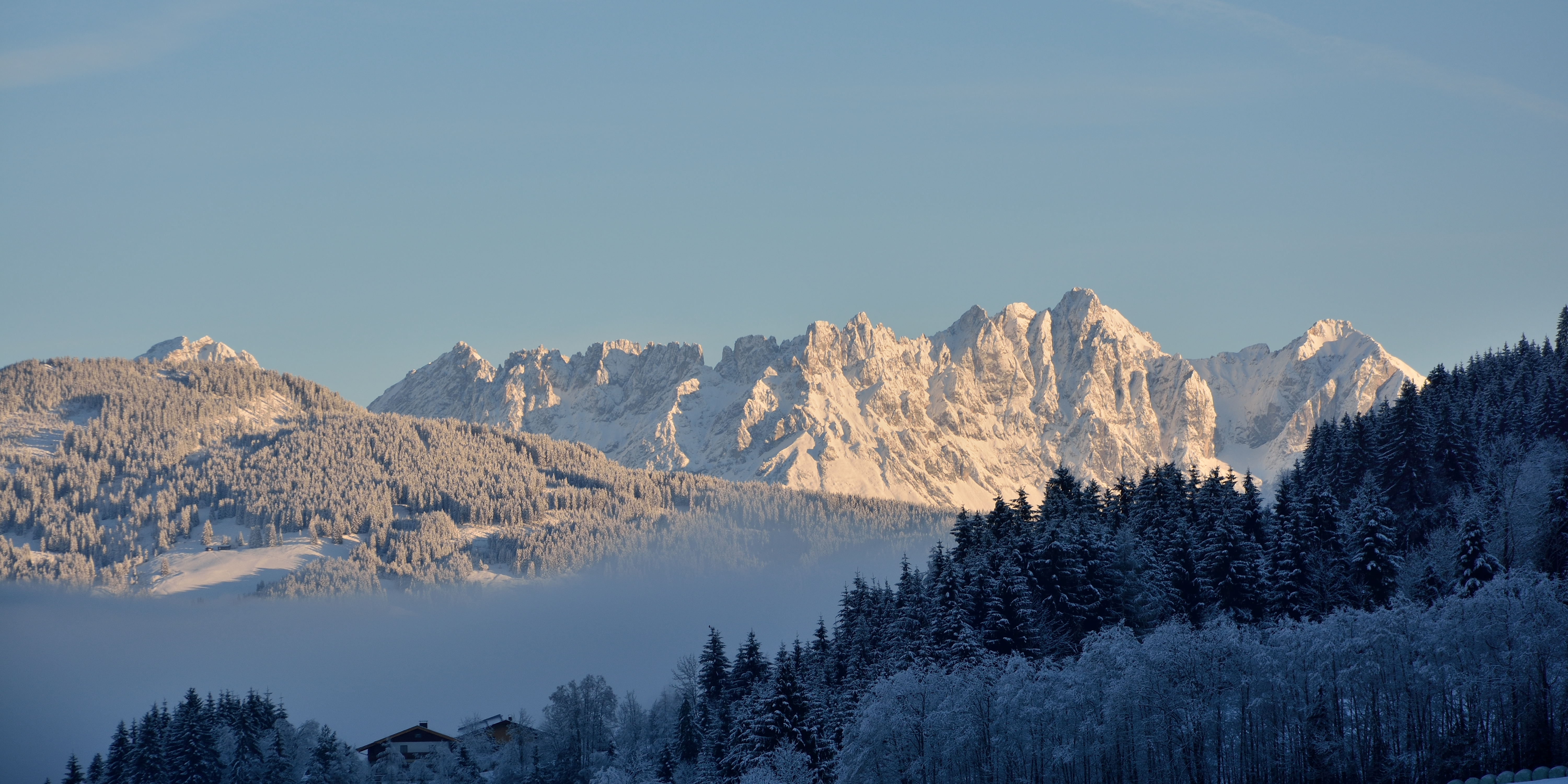 Kaiser Mountens in the morning sun with fresh snow. View from Aschau near Kirchberg in Tirol.